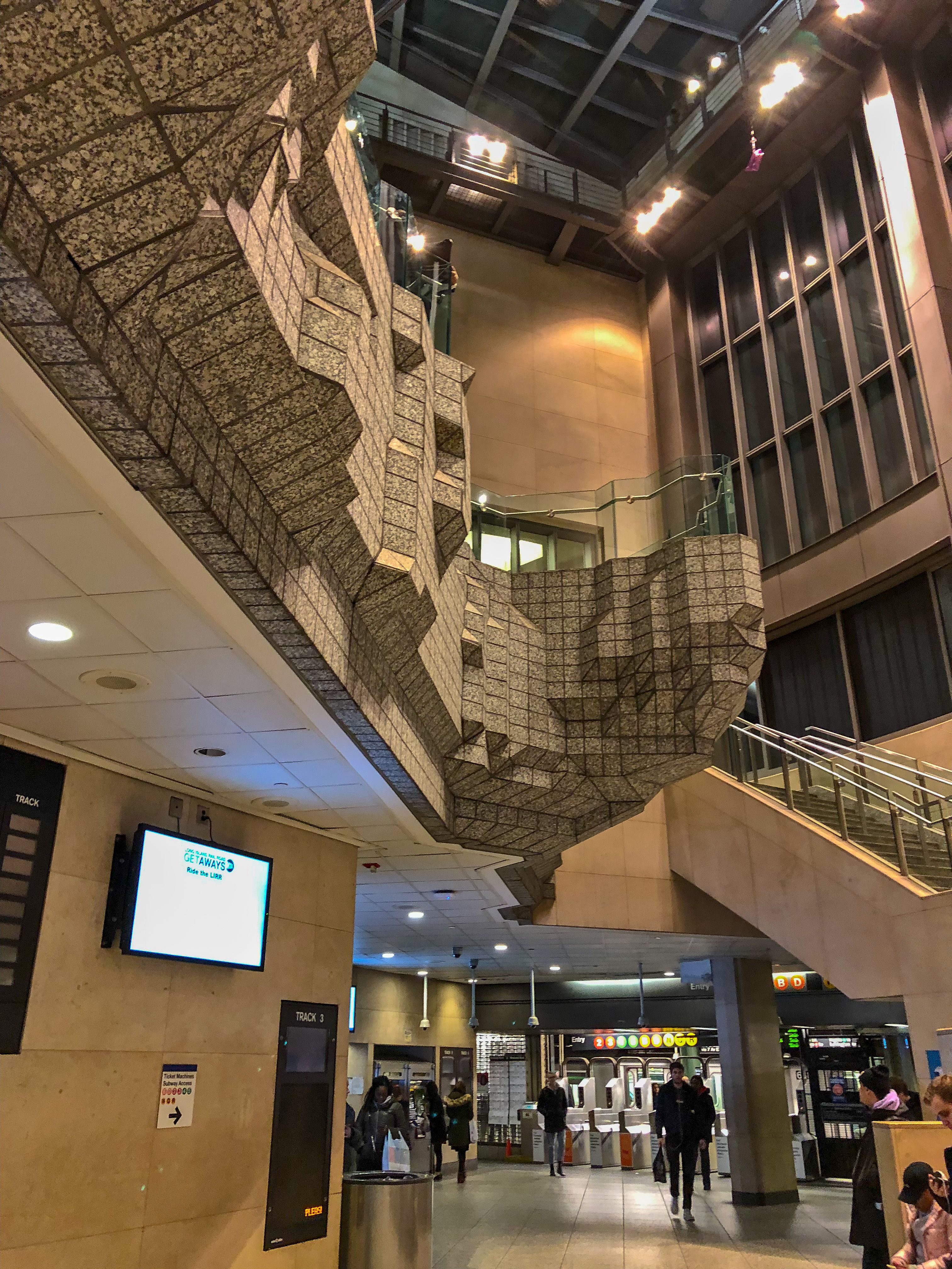 Entrance to subway and LIRR Atlantic Terminal, Brooklyn NY